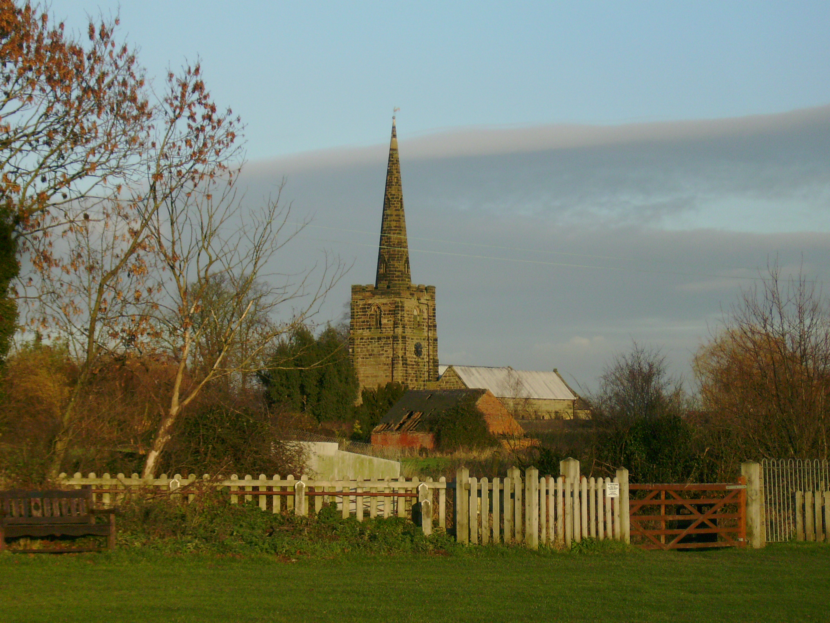 A Veiw of St. Michael's And All Angels Church, Appleby Magna, Leicestershire, UK